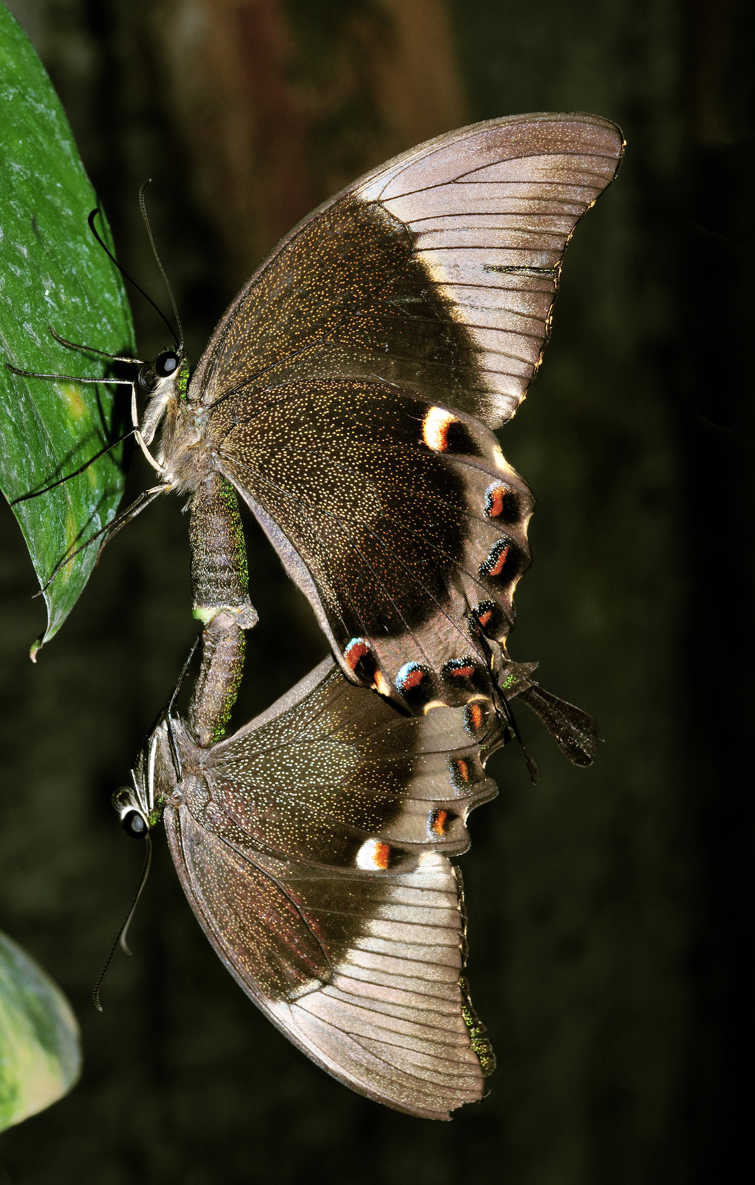 Emerald swallowtail at the Schmetterlingshaus (Butterfly zoo) in the Palmenhaus (palm house) near the Burggarten in Vienna, Austria. The big one above is the female. This image was previously misidentified as the Ulysses butterfly, a different species